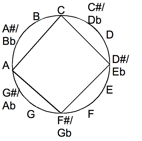 Diminished seventh chord drawn in the chromatic circle. Also a minor-thirds tuning.